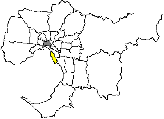 Map of Melbourne, Victoria (Australia), LGA of Bayside City highlighted